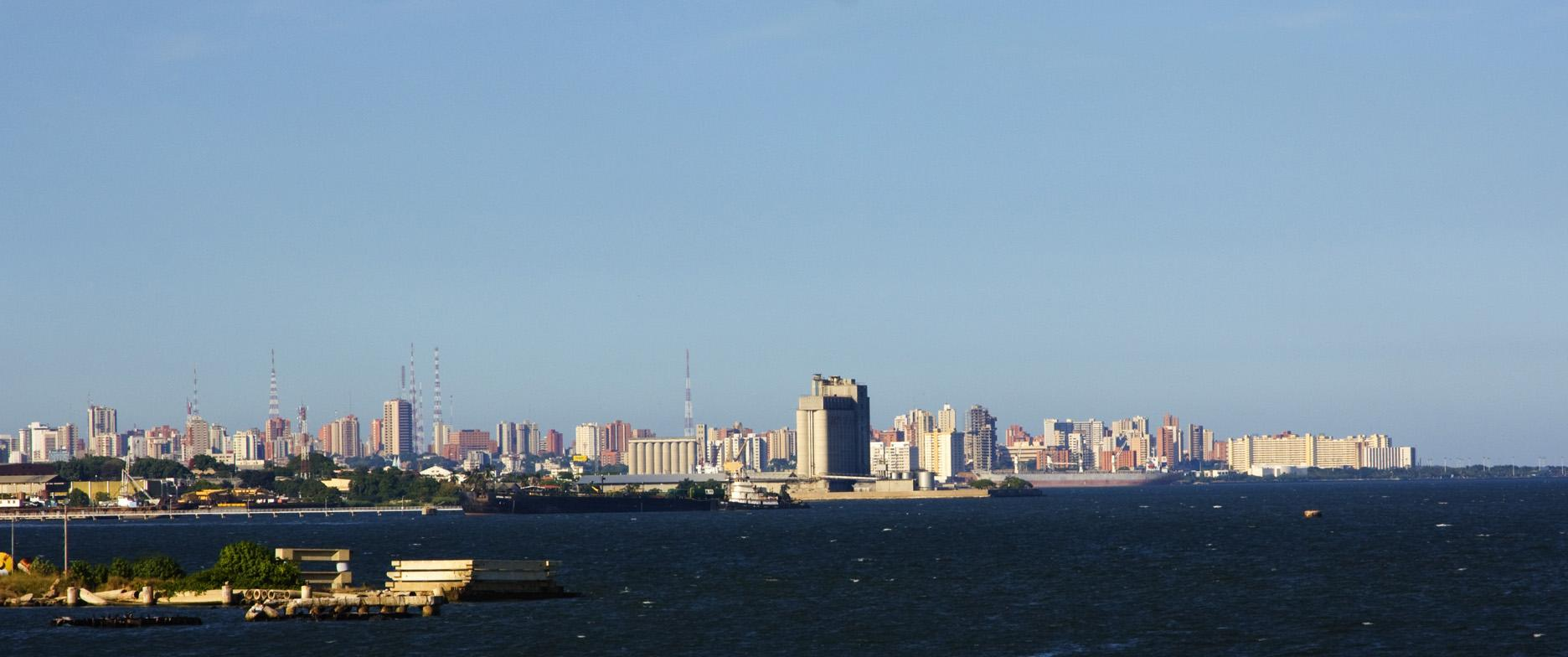 Maracaibo skyline, Venezuela